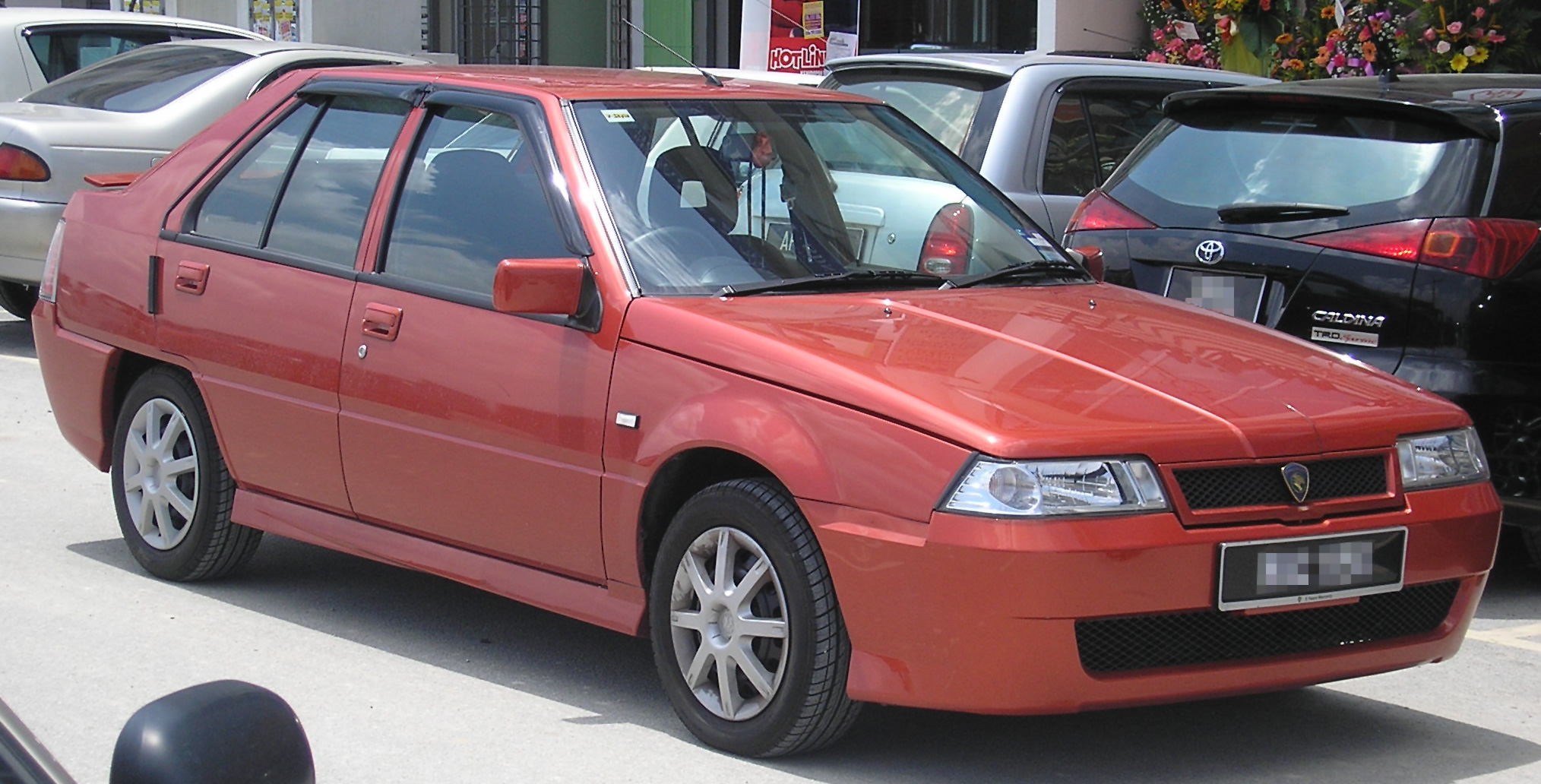 Front quarter view of a re-released, third facelifted Proton Saga (hatchback), in Serdang, Selangor, Malaysia.